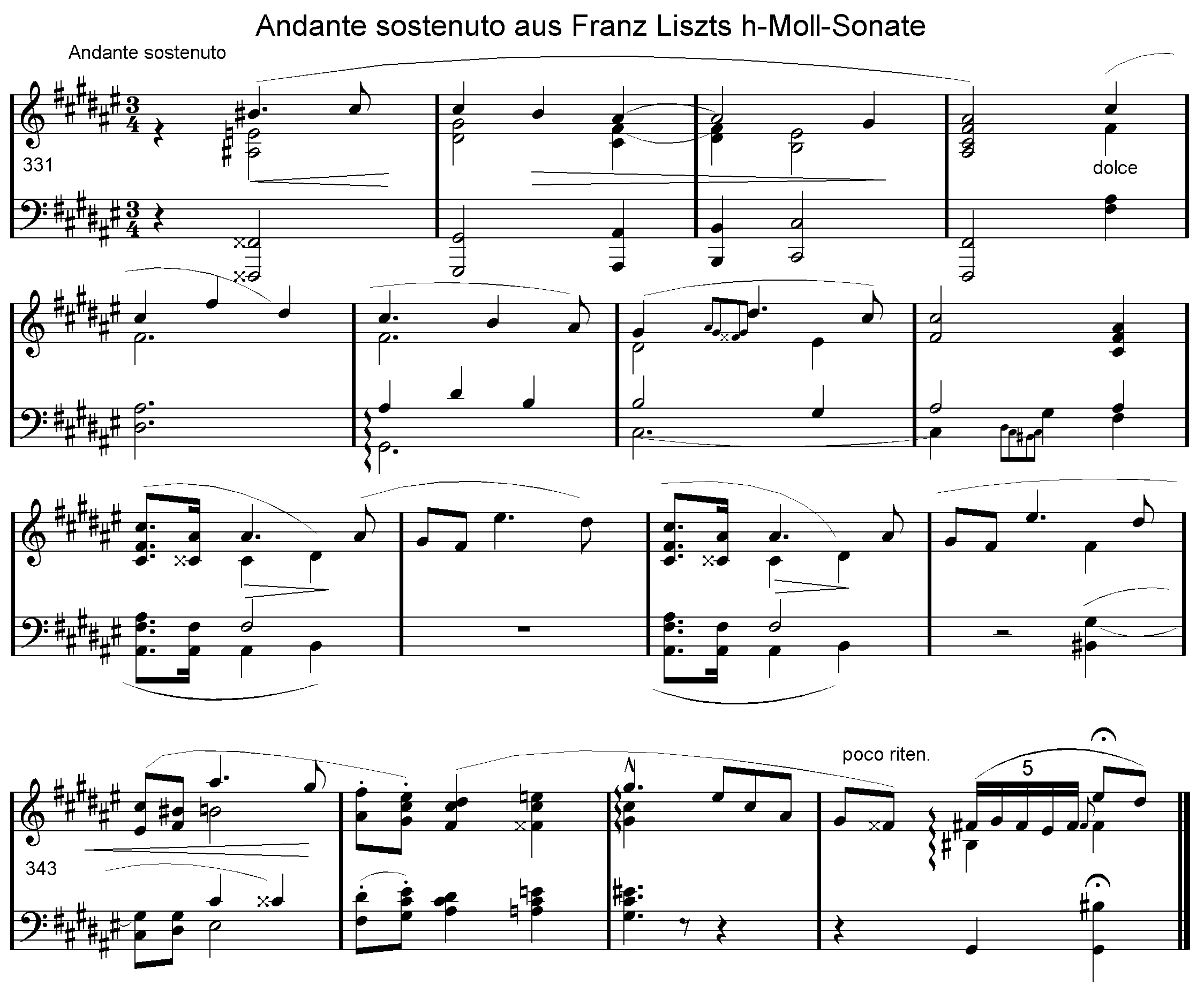 theme from Franz Liszt's b-minor-sonata